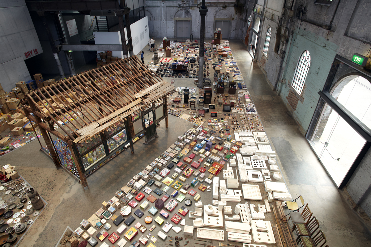 Song Dong, Waste Not (detail), 2013, Installation at Carriageworks, Sydney. Exhibition presented with 4A Centre for Contemporary Asian Art in association with Sydney Festival. Courtesy of the artist & Tokyo Gallery + BTAP. Image: Zan Wimberley